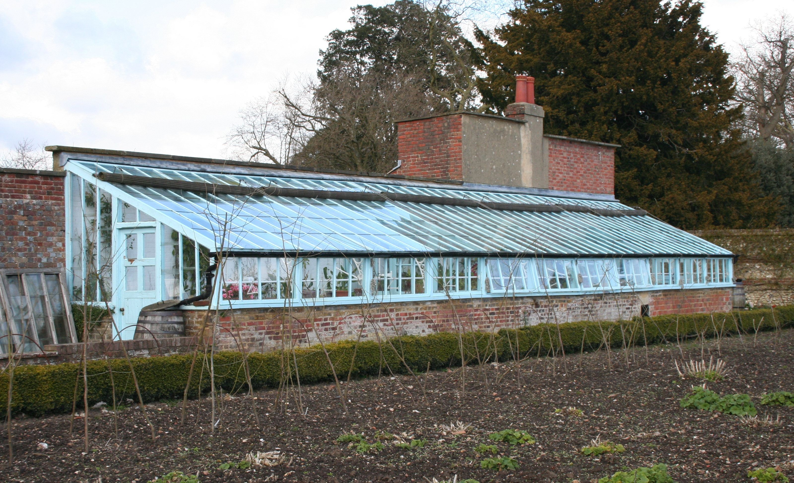 Darwin's greenhouse at Down House, Downe, London Borough of Bromley, England.